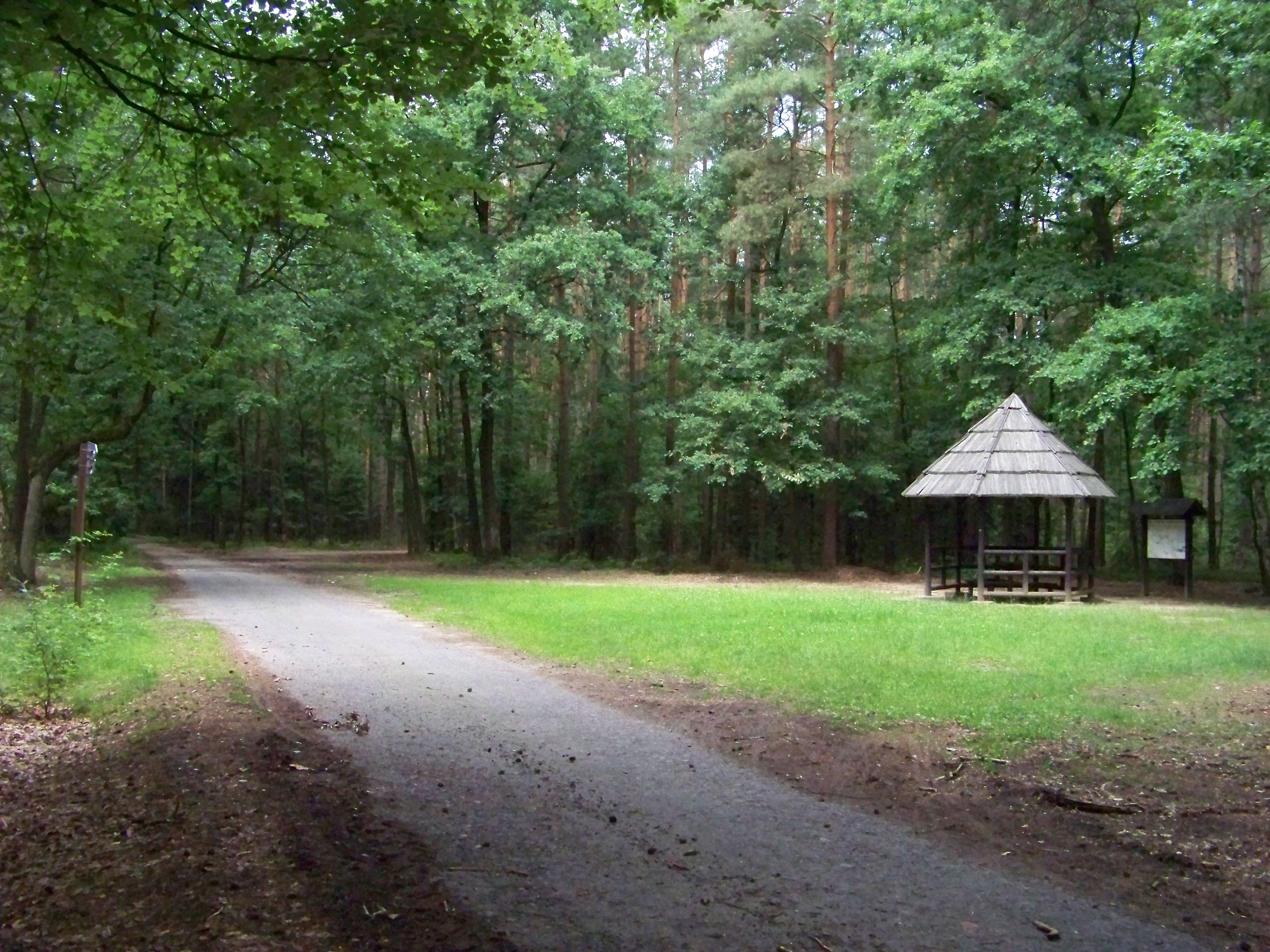 Újezd u Chocně, Ústí nad Orlicí District, Pardubice Region, the Czech Republic. Čertův dub hill, near the summit. - OpenStreetMap(Info)